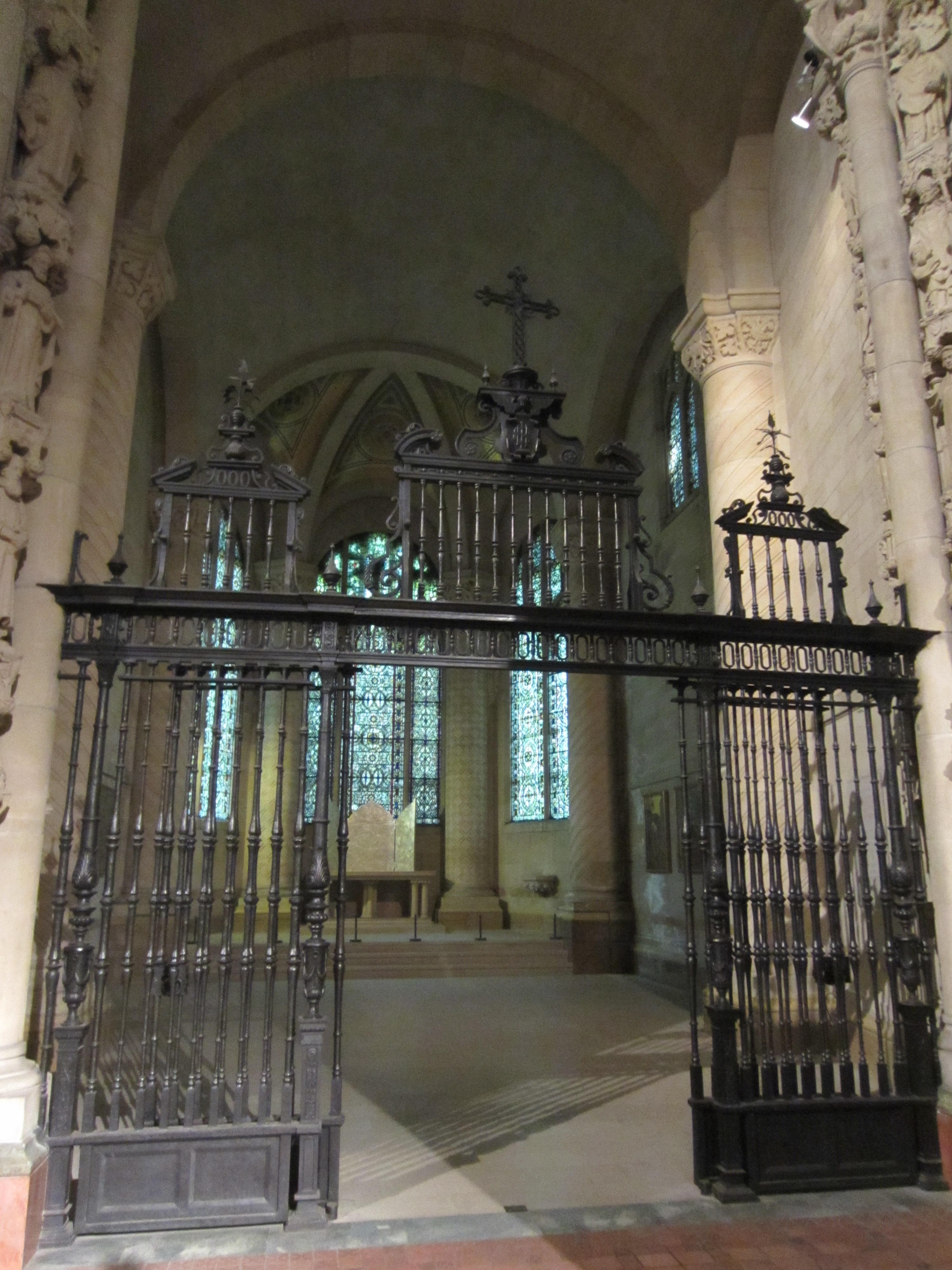 Cathedral of Saint John the Divine in New York City in June 2014